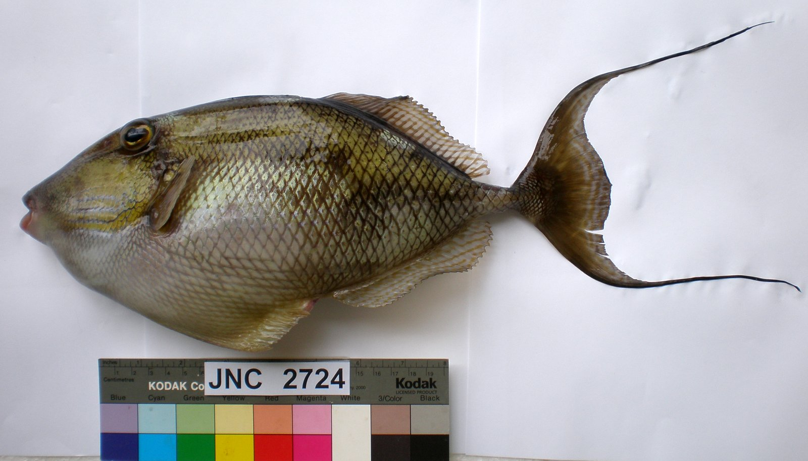 Abalistes filamentosus from New Caledonia. Locality: interior of Récif Kué near Passe Mato, 22°39S, 166°36E, depth 30-40 m. Fork length 340 mm, Weight 888 grams. Date 24-10-2008. This photograph was also uploaded to FishBase.